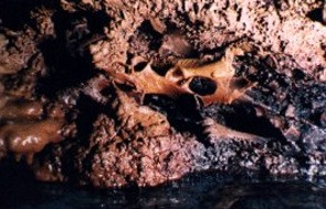 The fossil bones of Sardinian Deers in Punta Giglio Cave Alghero Sardinia